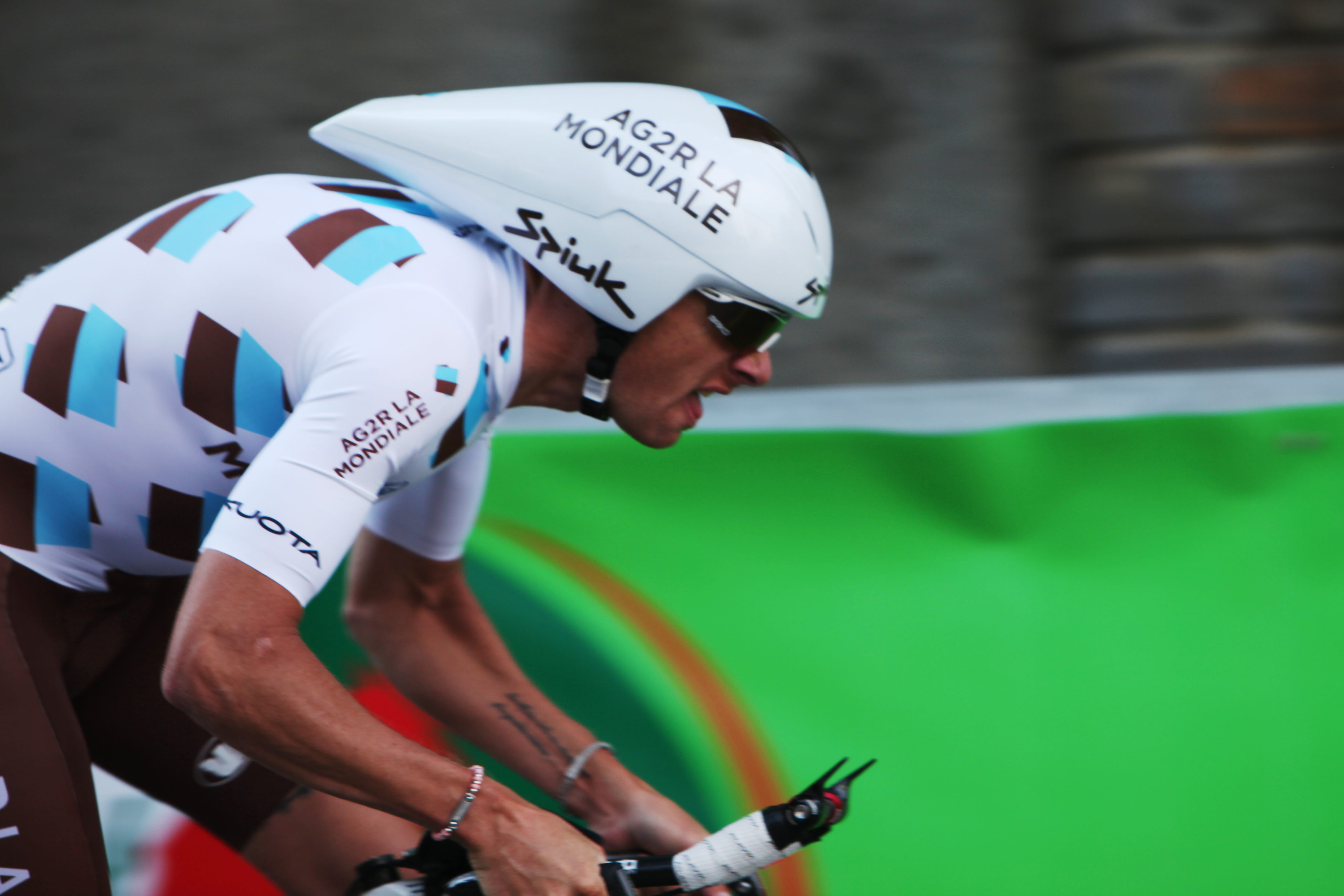 John Gadret at the prologue of the Tour de Romandie 2011